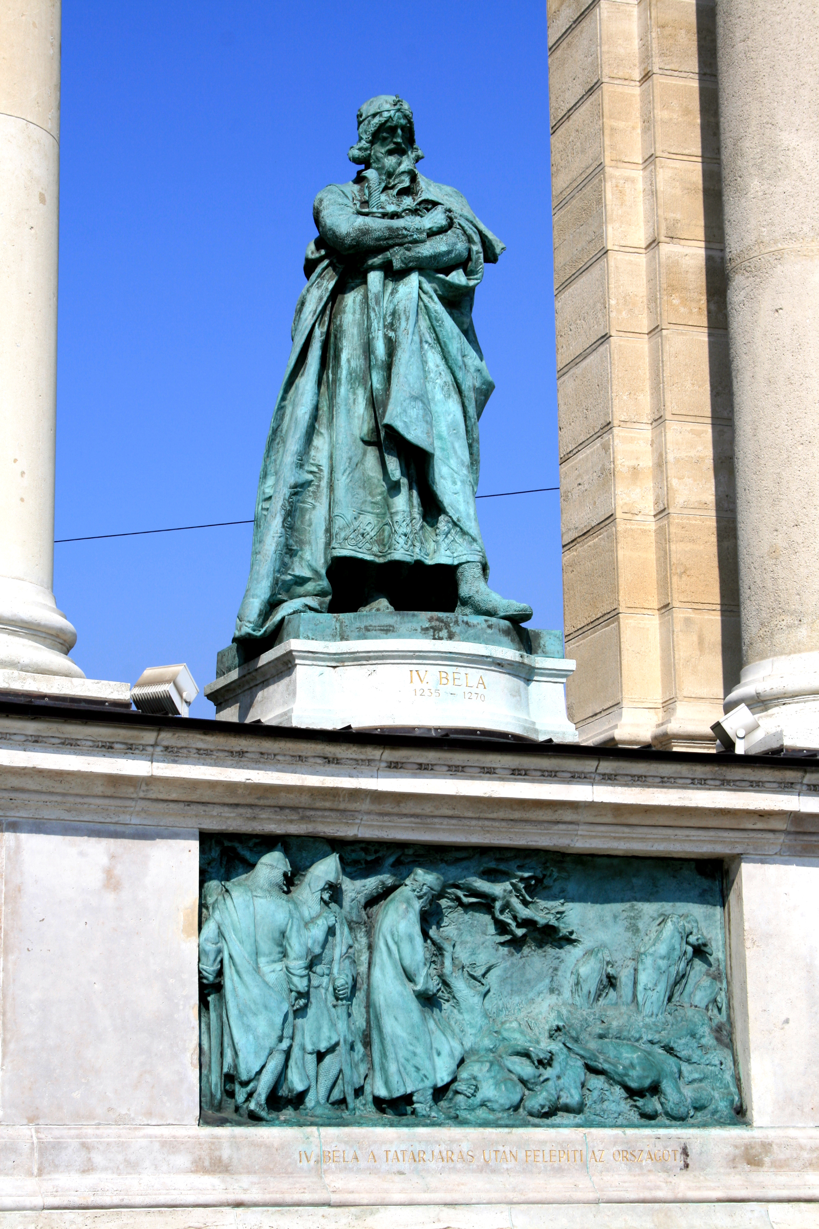 Statue of Béla IV of Hungary - Béla IV of Hungary, Millenium Monument on Heroes' square, Budapest, Budapest, Hungary